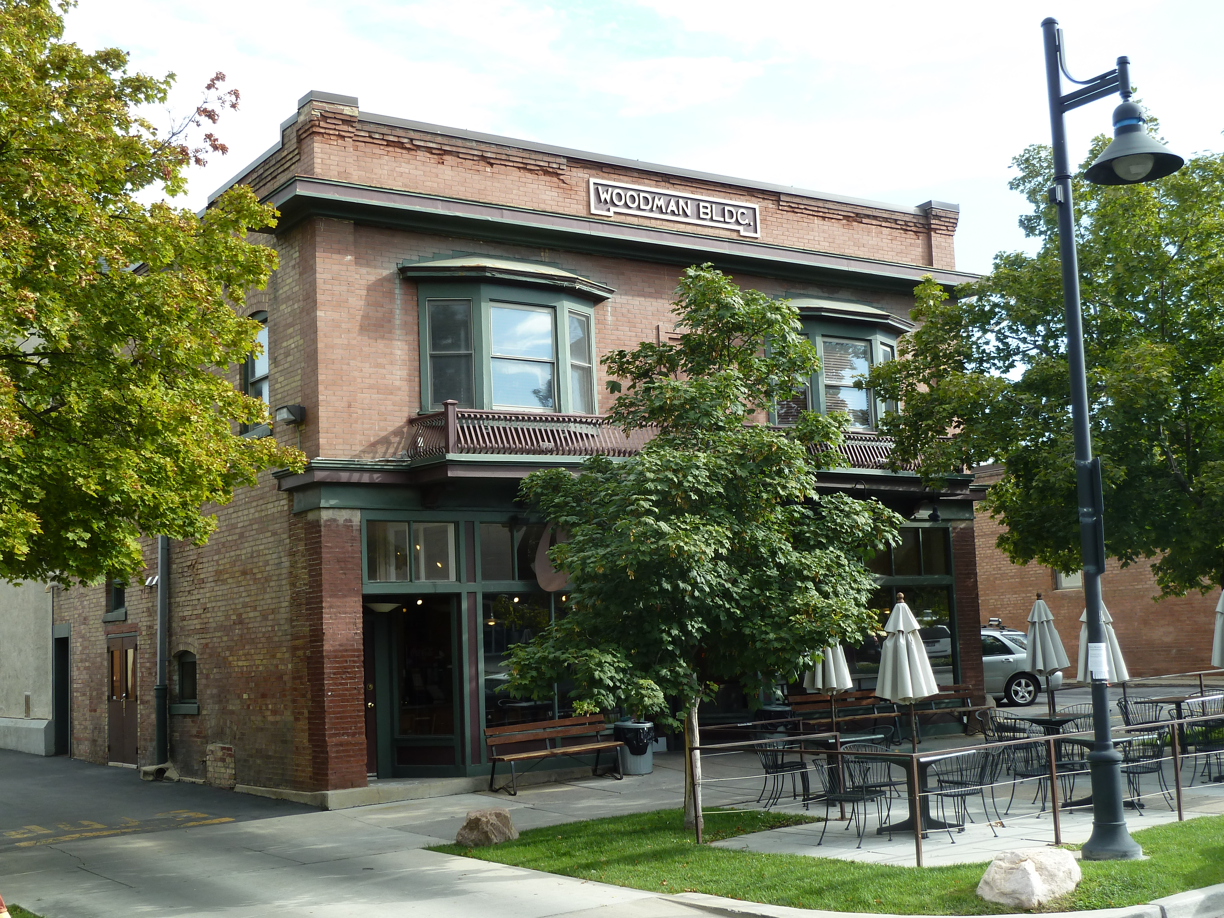 Lefler-Woodman Building, 859 E. 900 South 9th and 9th